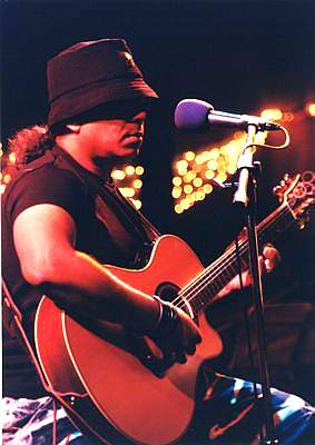 Winter Garden Concert